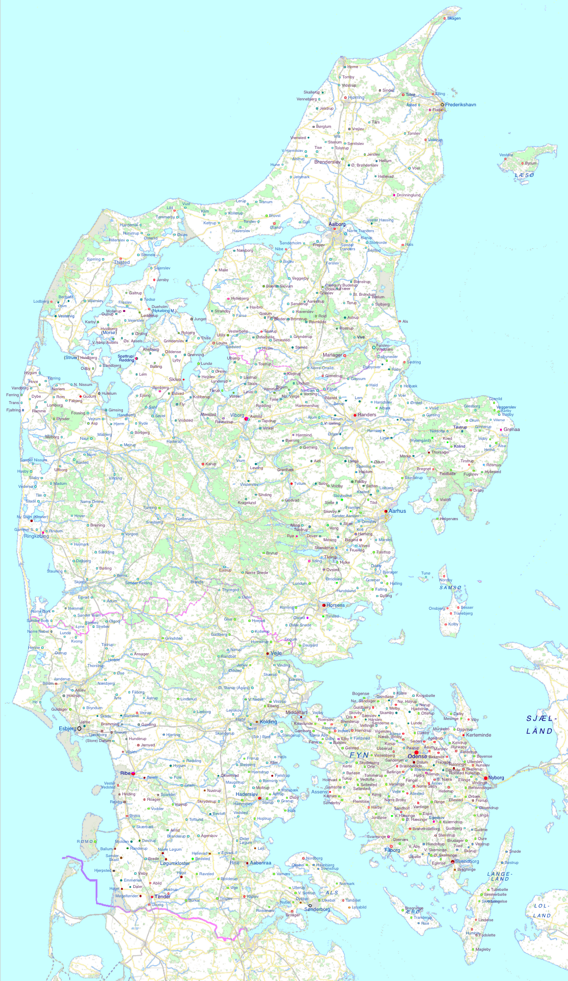 Detailed distribution of Brick Gothic in the Jutland & Funen